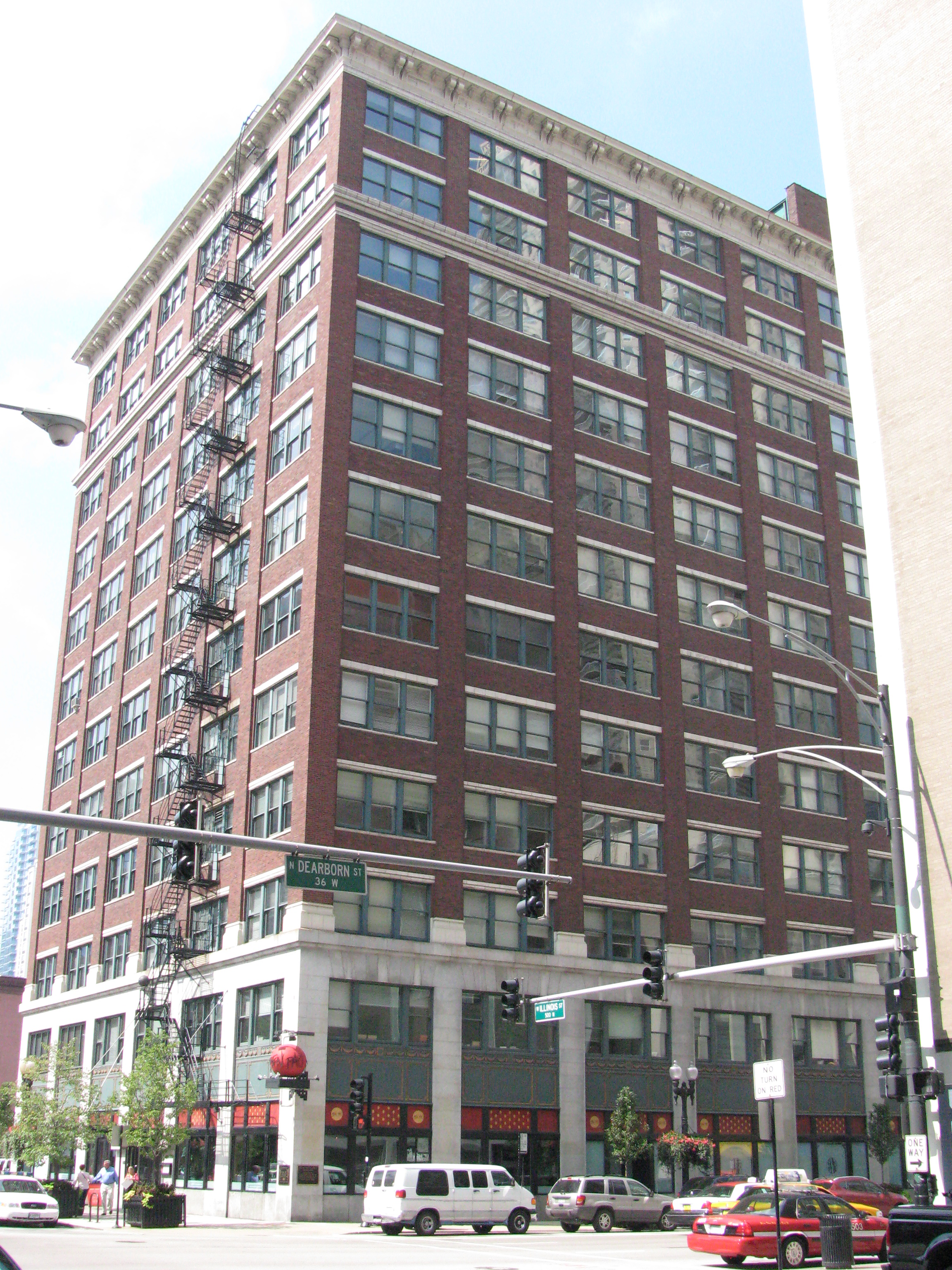 The Boyce Building in Chicago named after William D. Boyce.